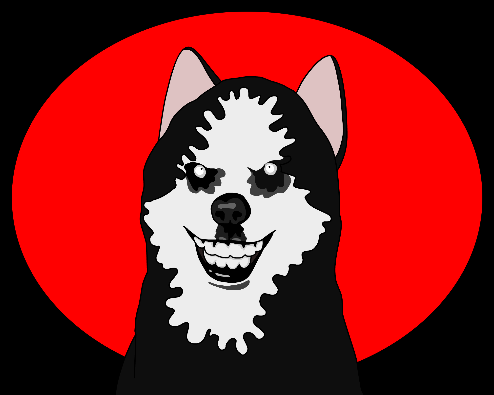 Smile Dog Credit with an active link required. Image is free for usage on editoral websites (even websites with ads) if you credit with an active link.